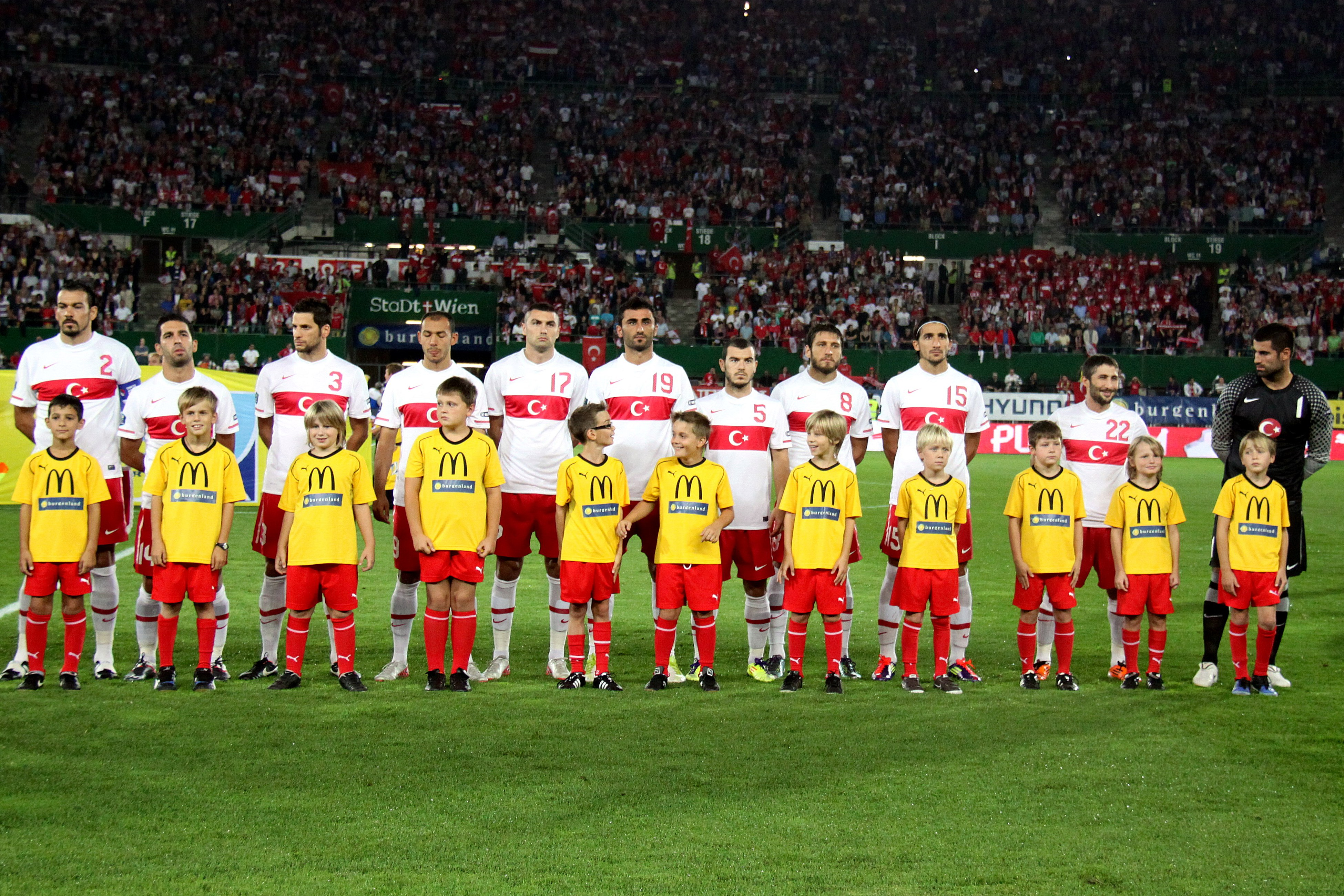 Turkey national football team against Austria (0:0)